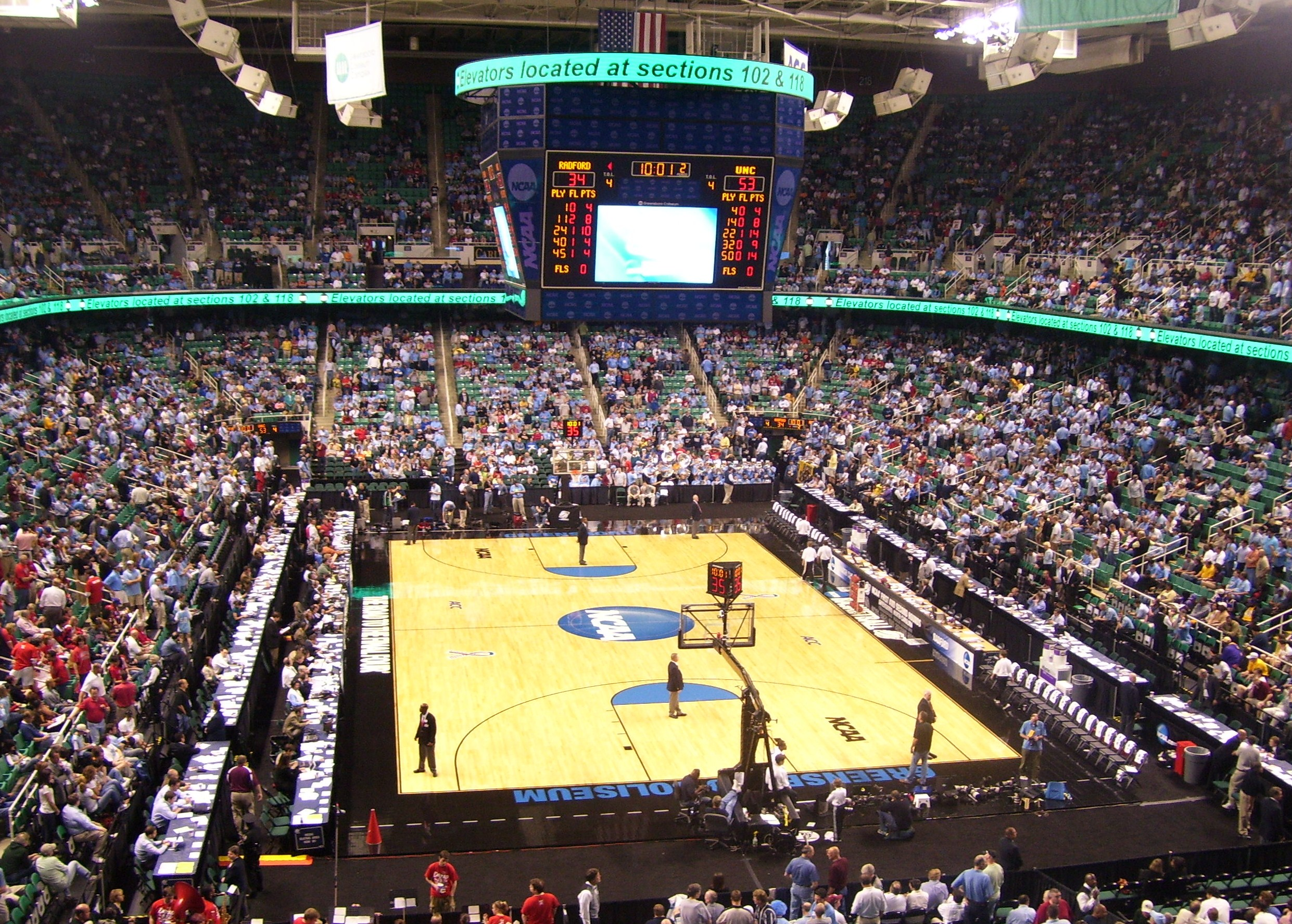 No. 1 UNC vs. No. 16 Radford had the arena full. Not exactly a great game, but got to see Tyler Hansbrough break the all-time scoring record for the ACC. Game 2 of the day. Game 1 was my beloved LSU Tigers against Butler. Geaux Tigers!